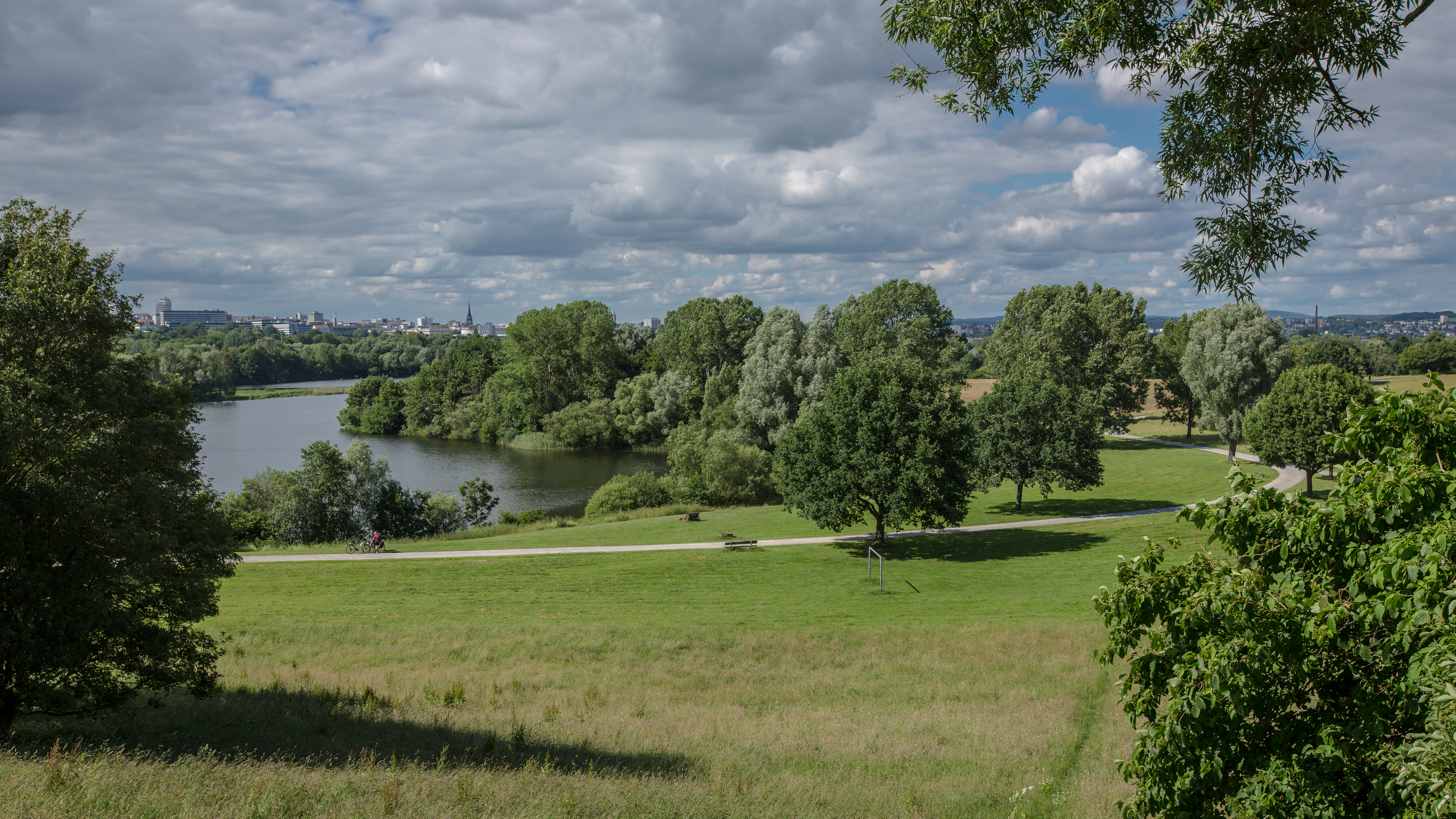 Fuldaaue in June 2016. Northern view.